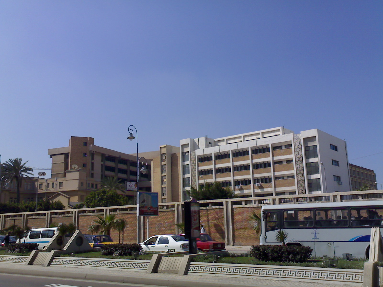 One of the premises of the Faculty of Arts, Alexandria University